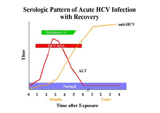 Hepatitis C: Slide Set: 1 | CDC Viral Hepatitis